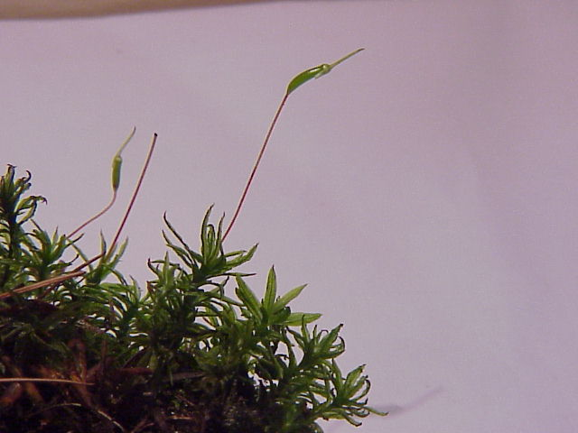 Species: Atrichum undulatum Family: ' Image No. 1